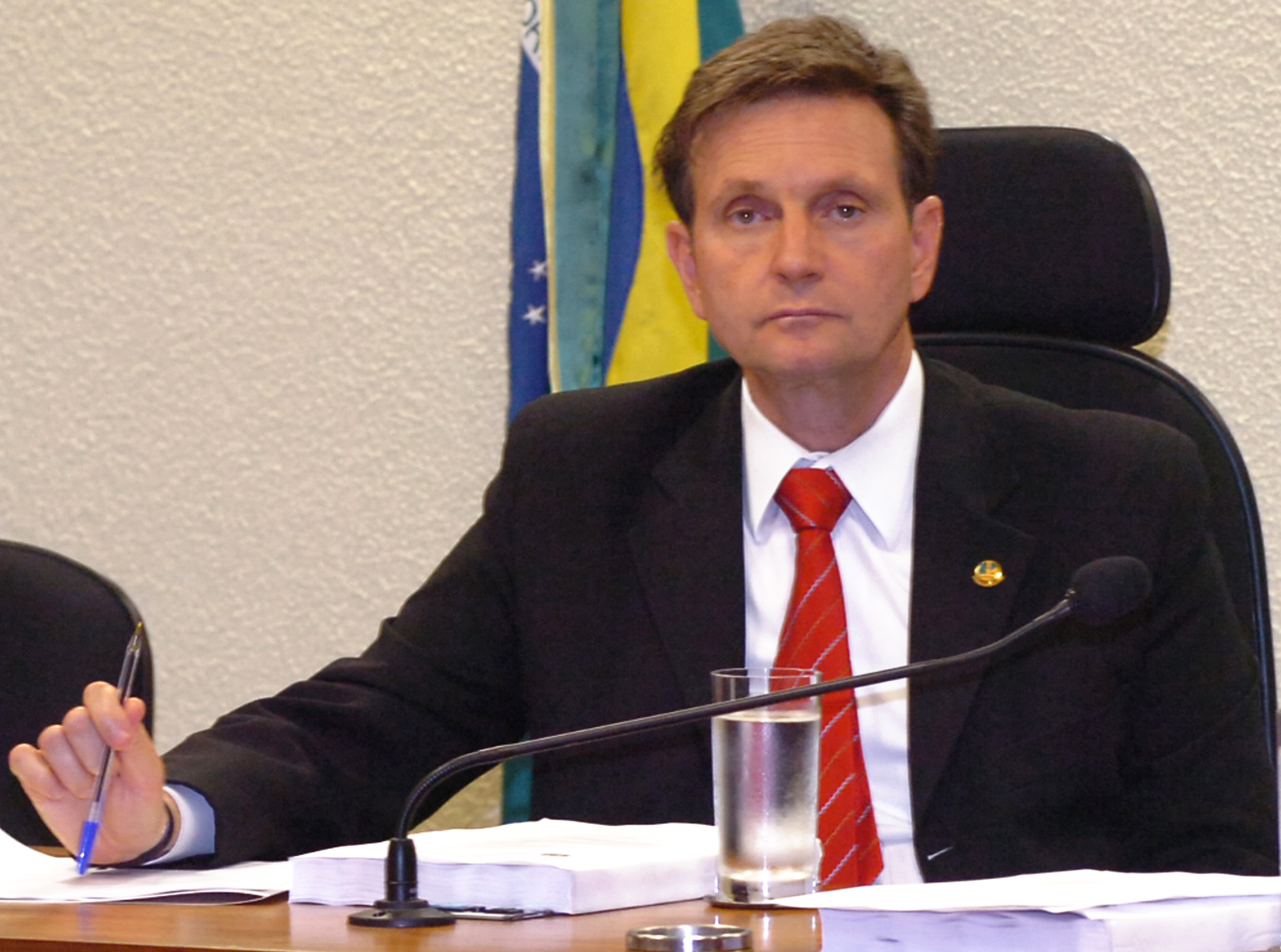 The Brazilian senator Marcelo Crivella.